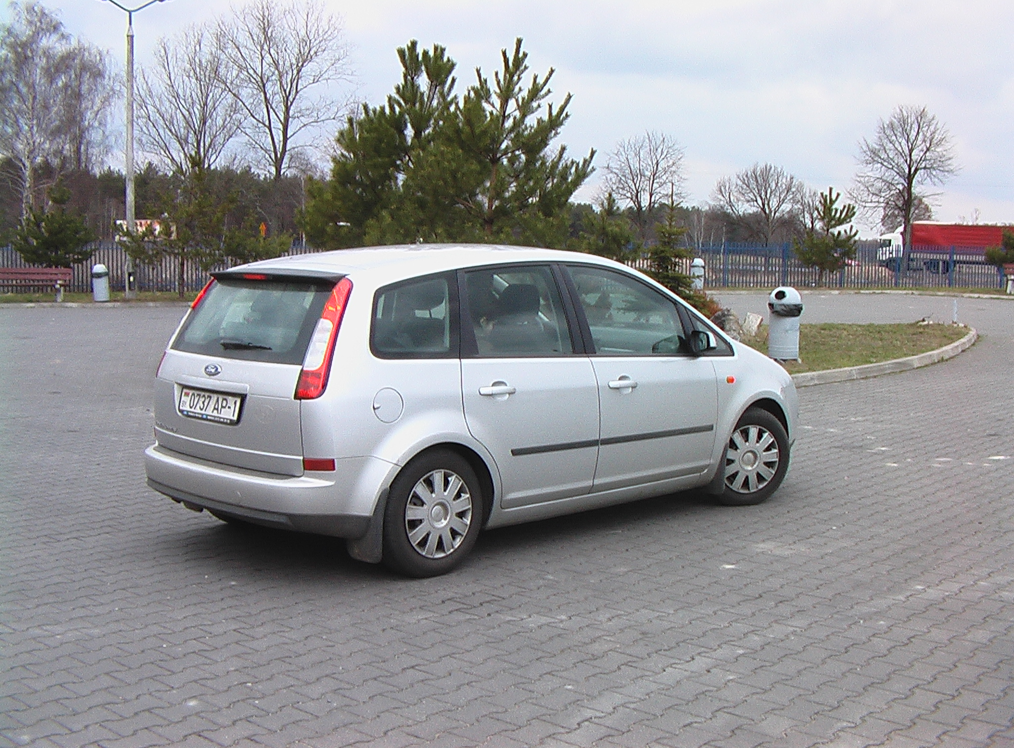 side view of silver Ford Focus C-MAX